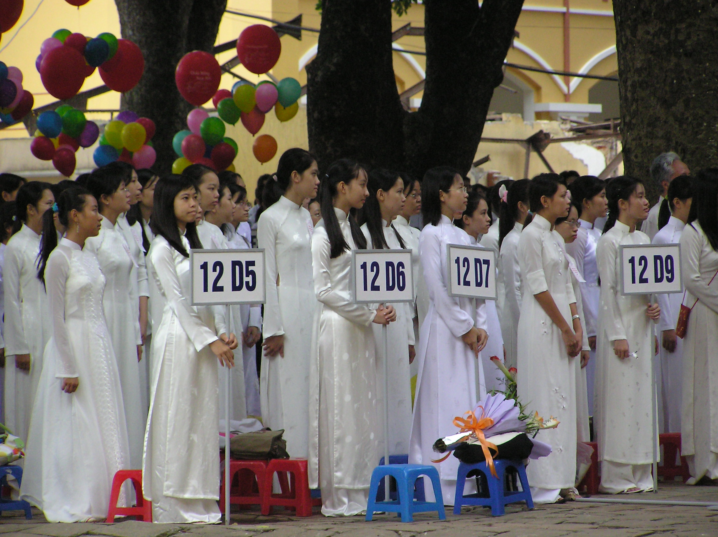 A school-year opening ceremony at Chu Văn An High School, Hanoi, Vietnam.